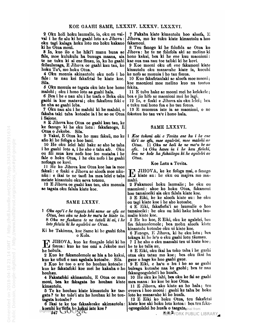 page 547 of a Bible in Tongan, published in 1867 London.